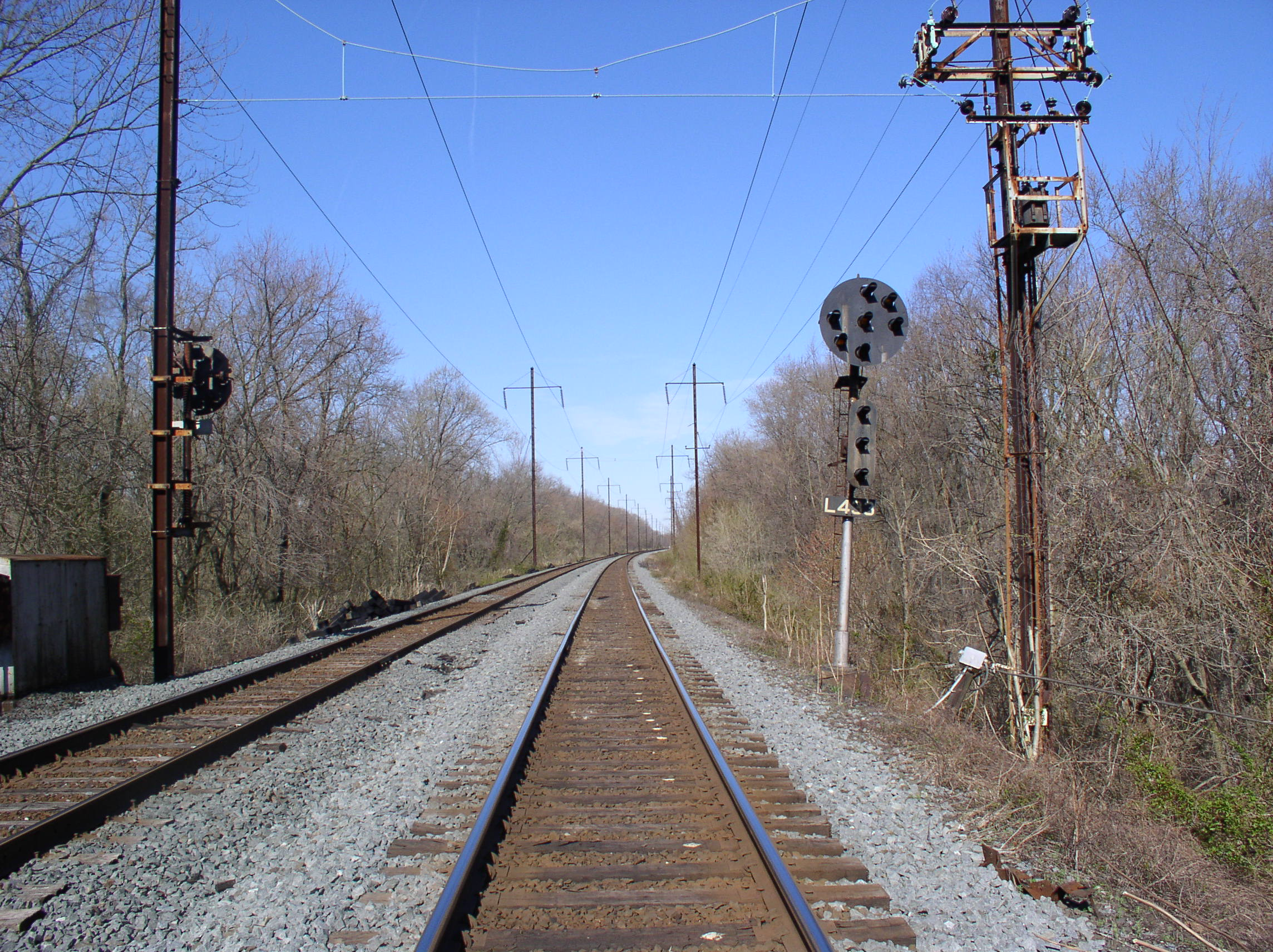 A pair of automatic block system position light signals, each governing one direction of travel on the Enola Branch of Norfolk Southern Railway (formerly Conrail).